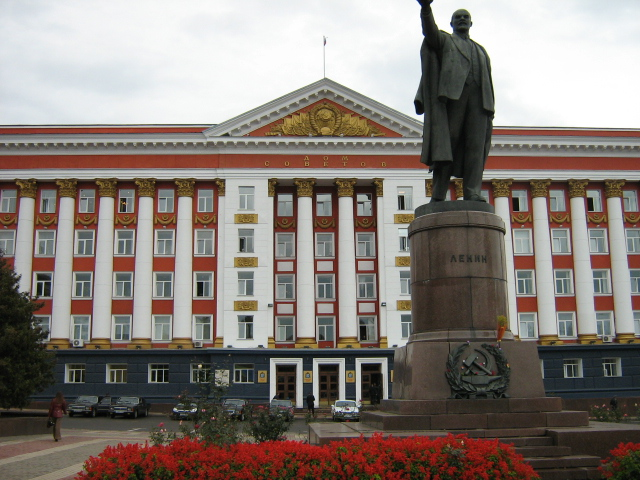 monument to Lenin in Kursk in front of House of Soviets, seat of the Kursk Oblast Government